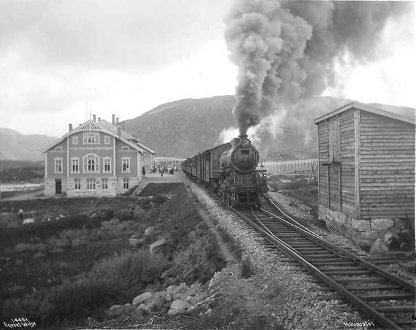 Haugastøl railway station on Bergensbanen, in Hol, Norway.